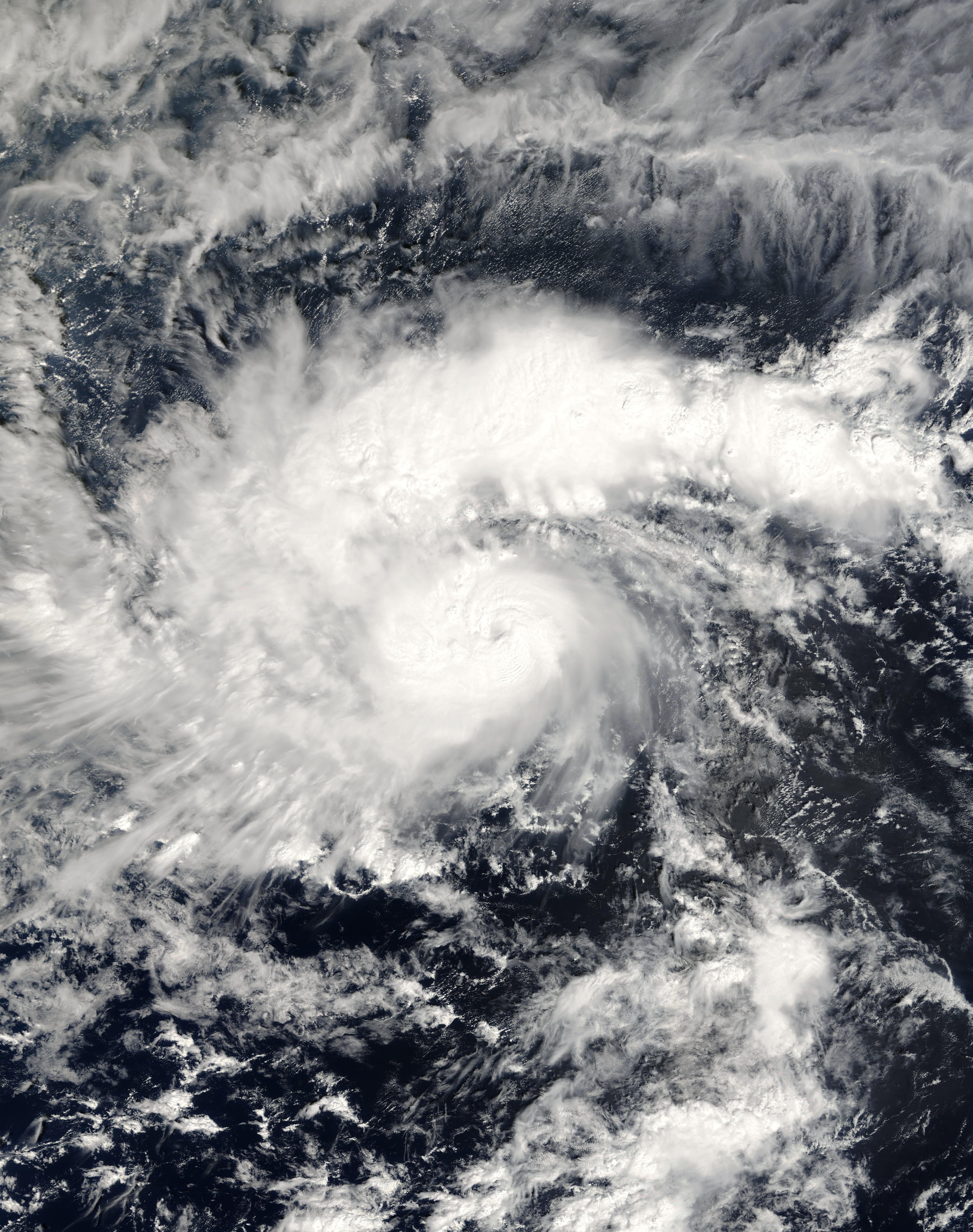 Severe Cyclonic Storm Agni on November 30, 2004